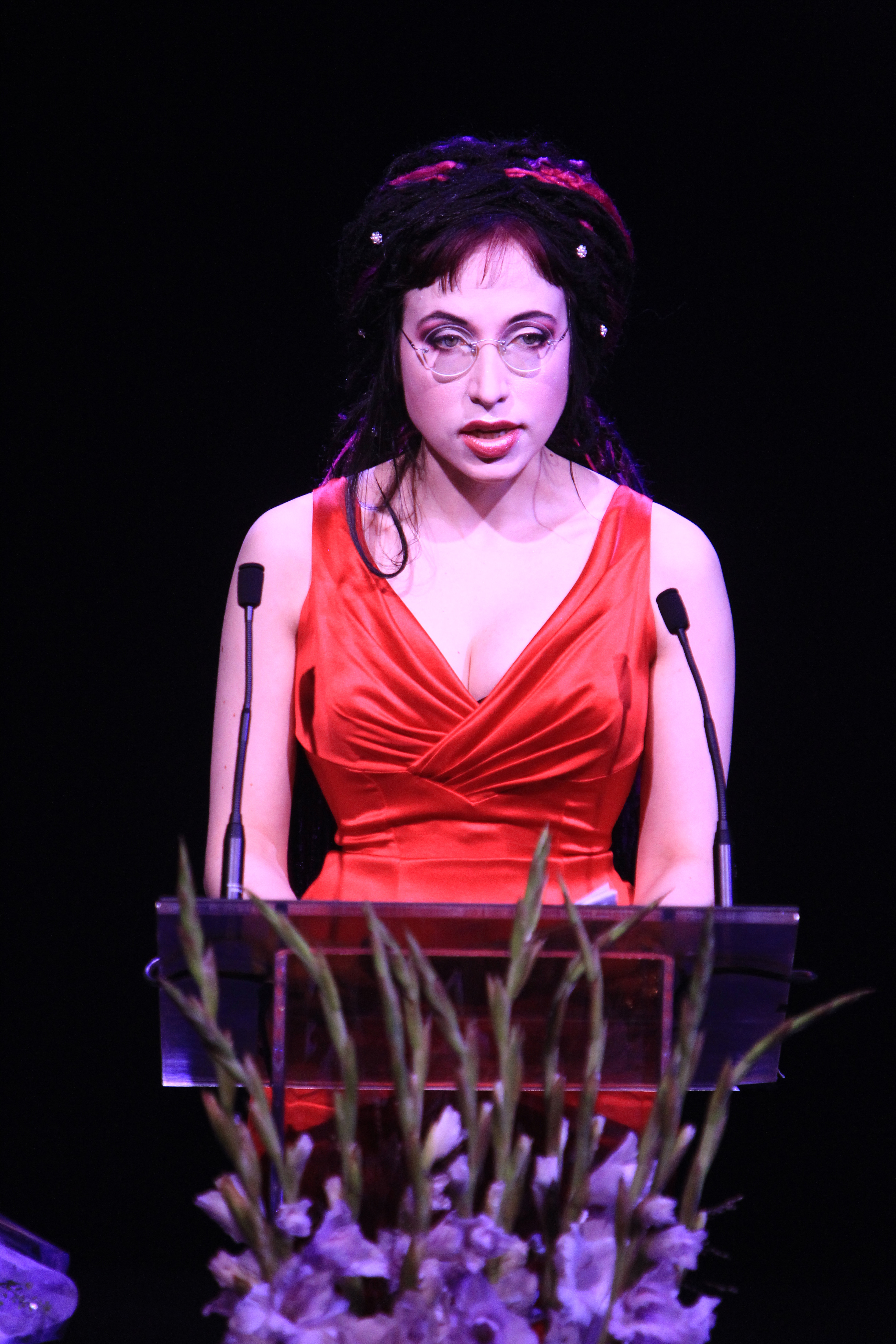 Sofi Oksanen, vinnare av Nordiska rådets litteraturpris 2010 Keywords: Literature Prize